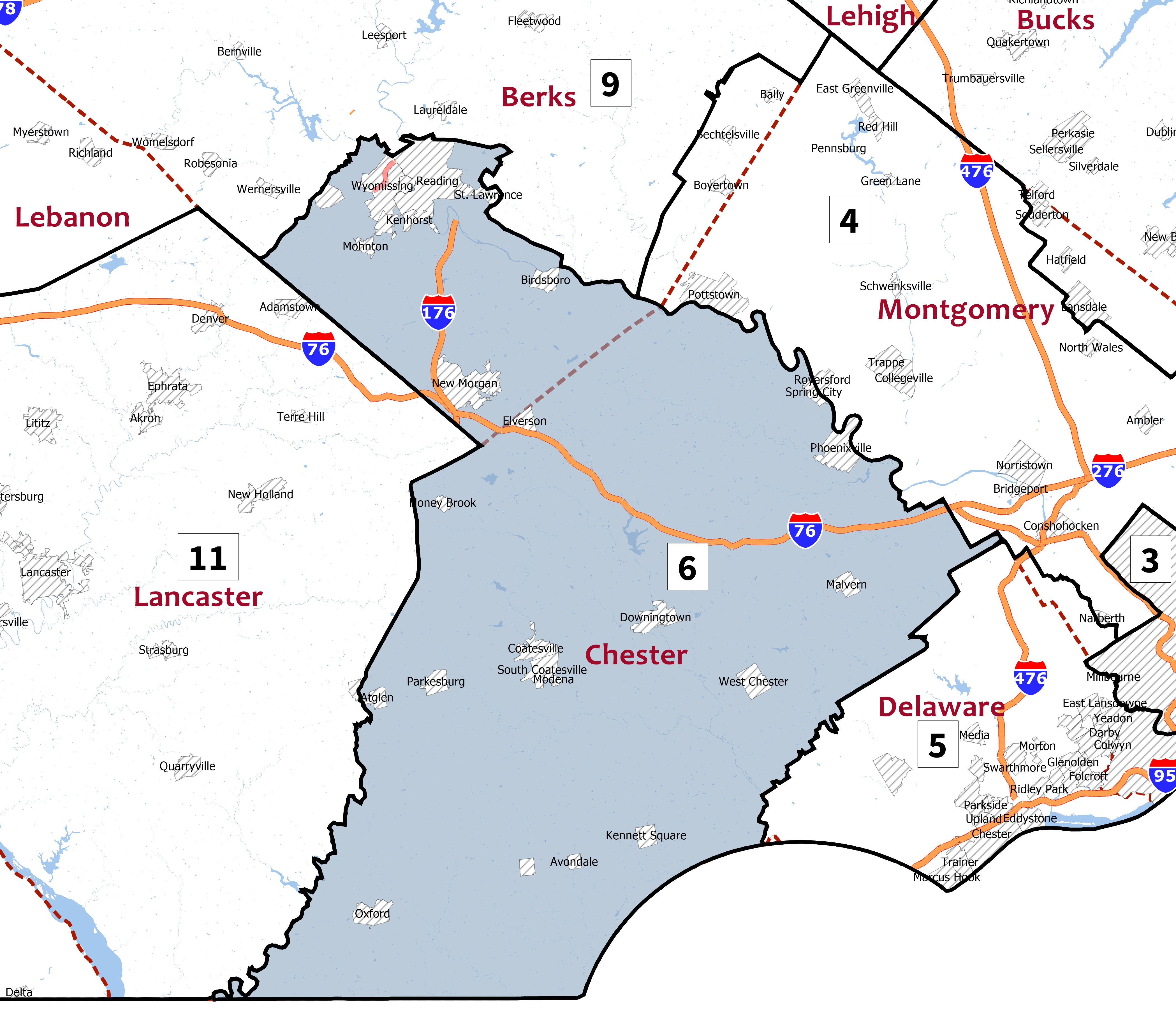 Pennsylvania congressional district 6